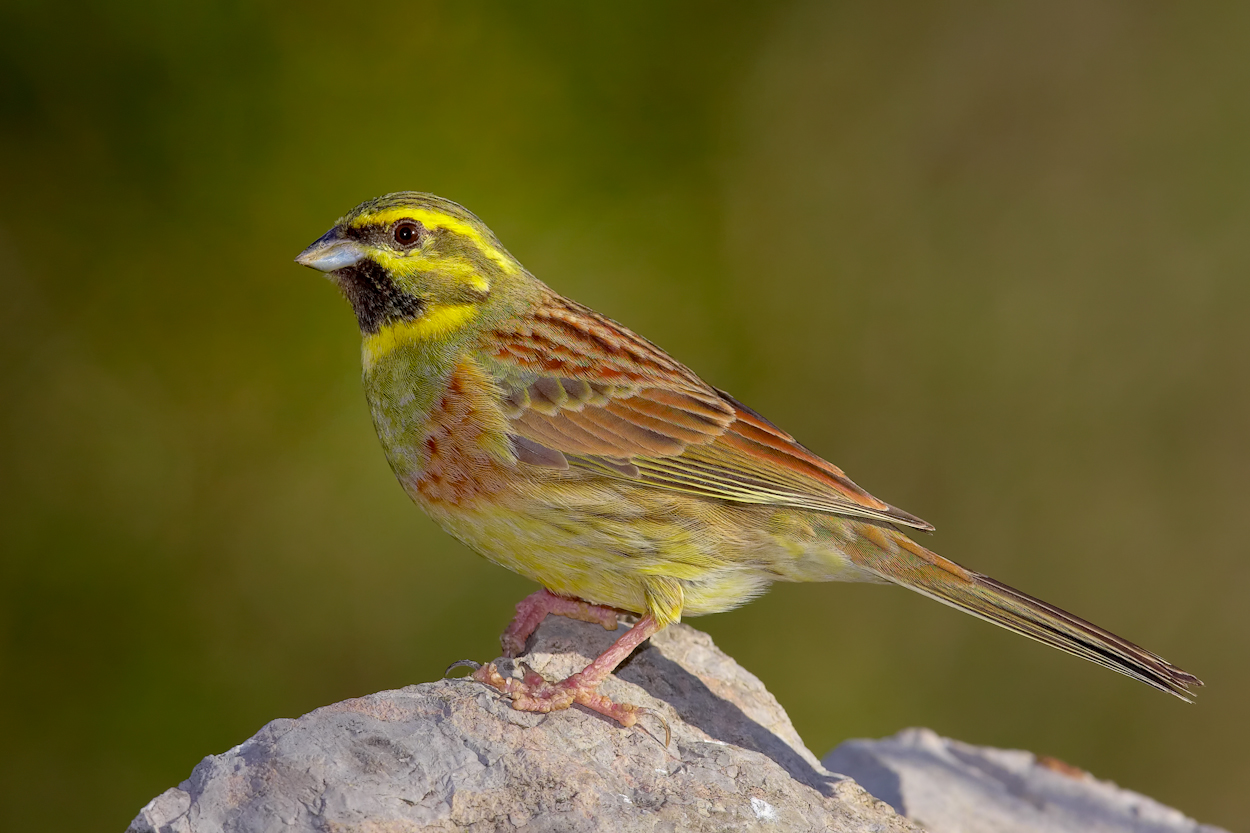 A male Cirl Bunting in Valencian Community, Spain.